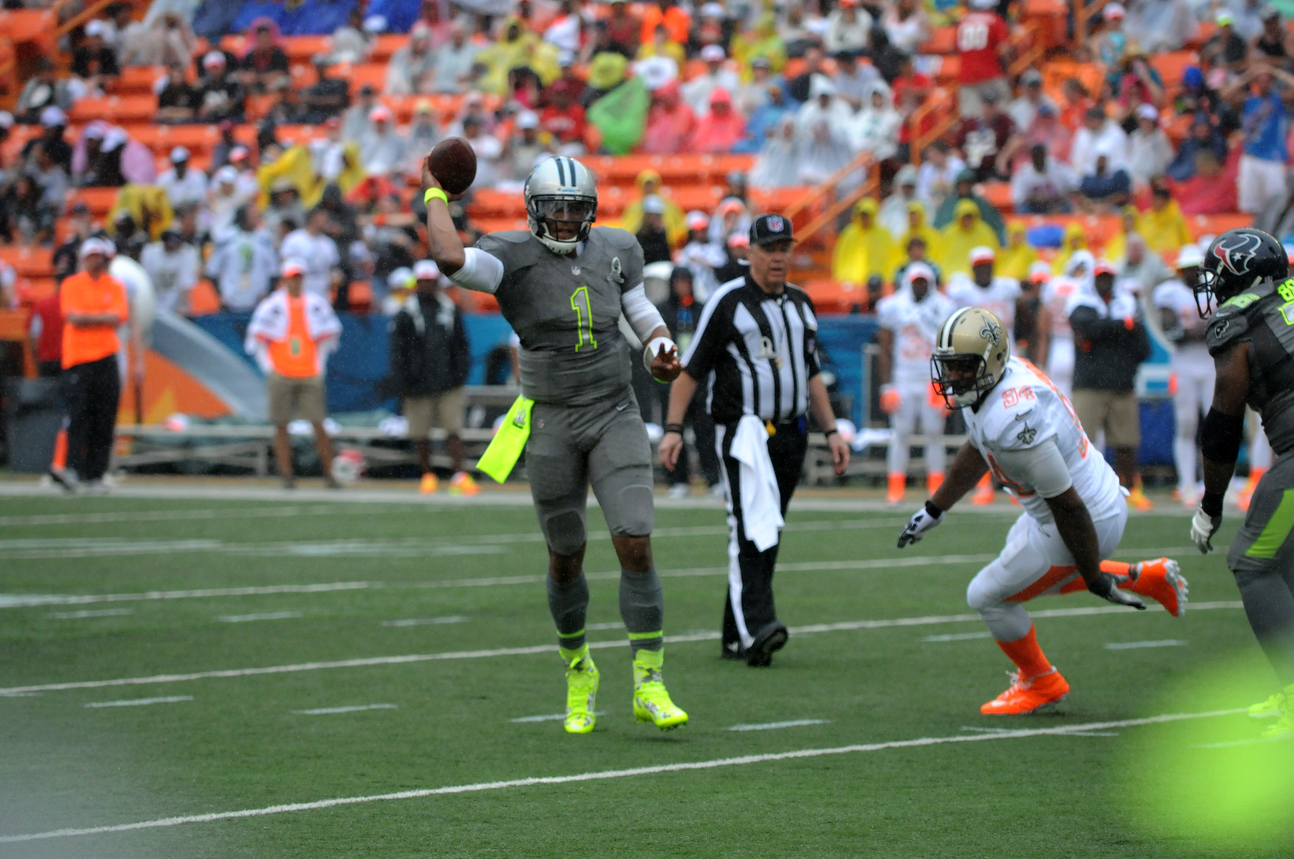 Cameron Newton, a quarterback with the Carolina Panthers, scrambles for a pass during the 2014 Pro Bowl at the Aloha Stadium Jan. 26.